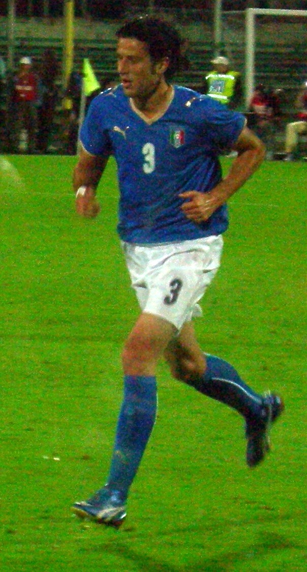 Player photo, made during the friendly football match Italy vs Belgium, played May 30, 2008 in Florence (Italy)